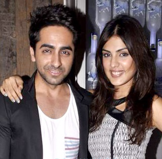 Ayushmann Khurrana and Rhea Chakraborty